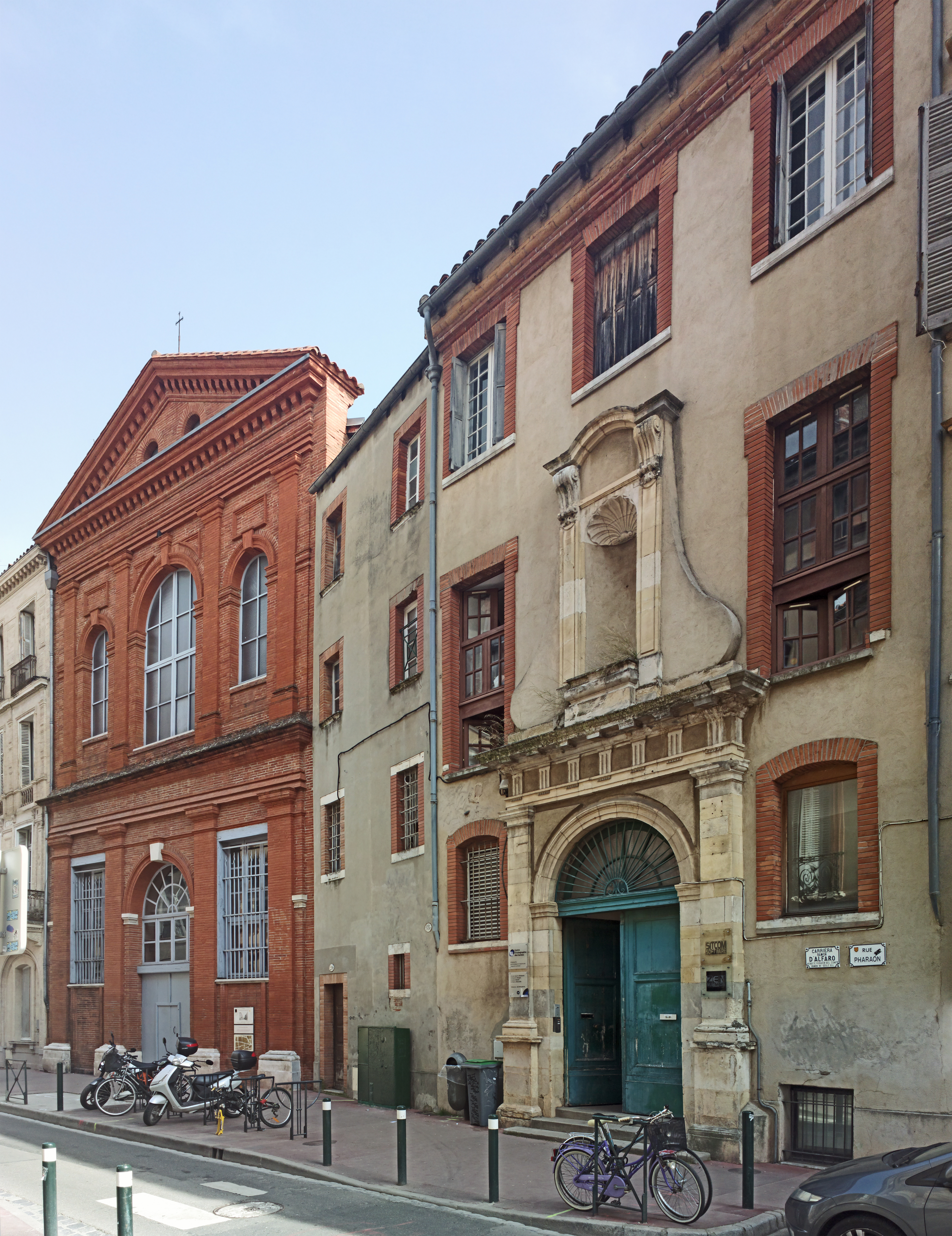 Ancien couvent des religieux de Saint-Antoine-du-Salin; 18 et 20 rue Pharaon in Toulouse. Built in 1656. Architect: Jean-Pierre Rivalz